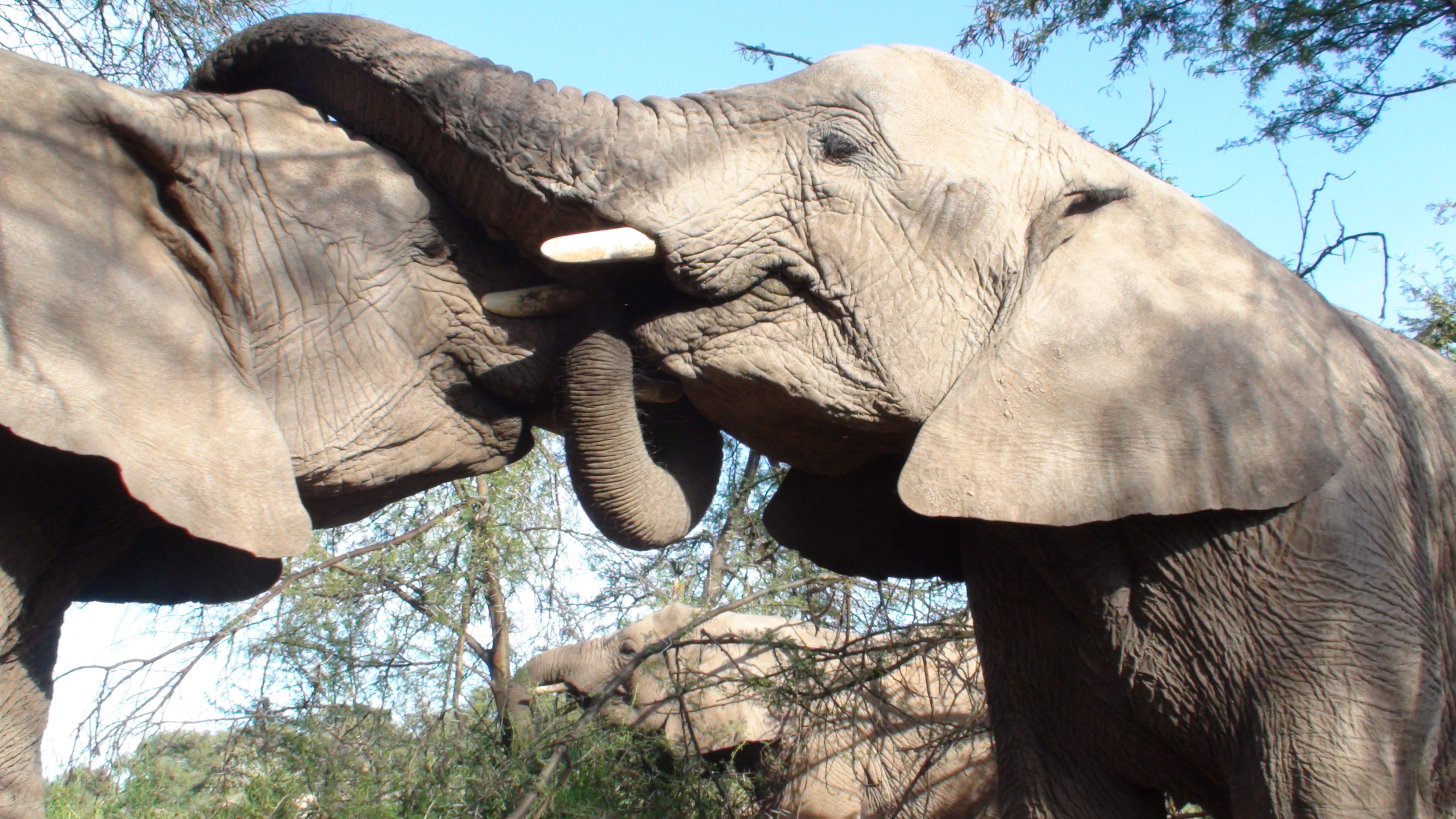 Elephants share water by performing this operation.